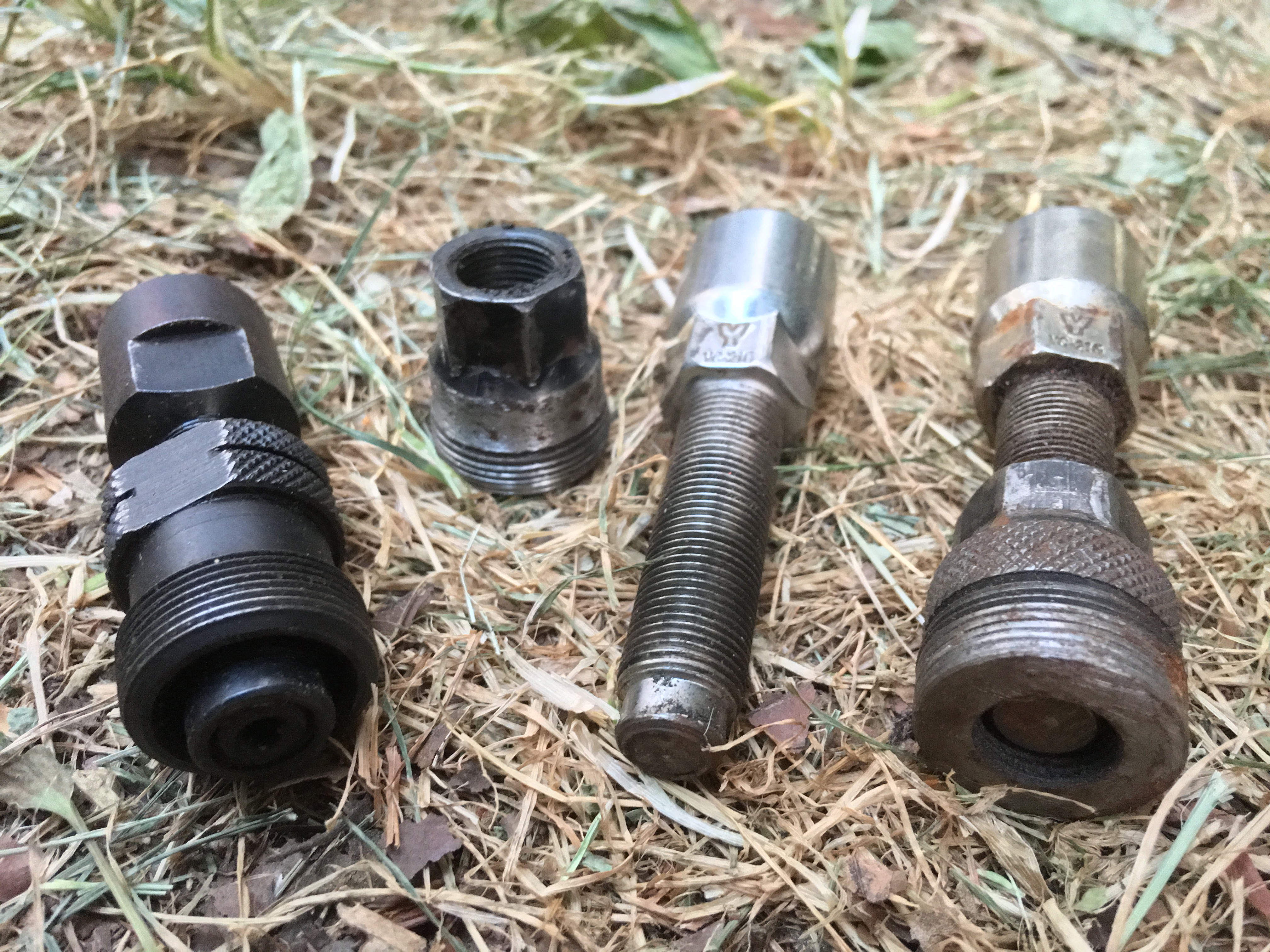 Crank puller/ extractor/ removal tools for sqare taper bottom brackets. Tools for ISIS and Octalink bottom brackets look similar but have a wider ring at the end of the spindel. Left: A hardened crank puller with a rotating ring at the end of the spindle which reduces wear and friction when pushed against the bottom bracket axle. Middle: The two parts of a cheap crank puller (without the rotating ring) taken apart. The soft metal threads of the basic pullers often wear off after only a few applications. Right: A cheap puller with worn threads. This crank puller will also damage the inner threads of the crank.